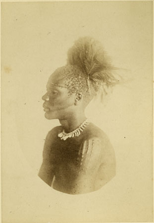 Bari men